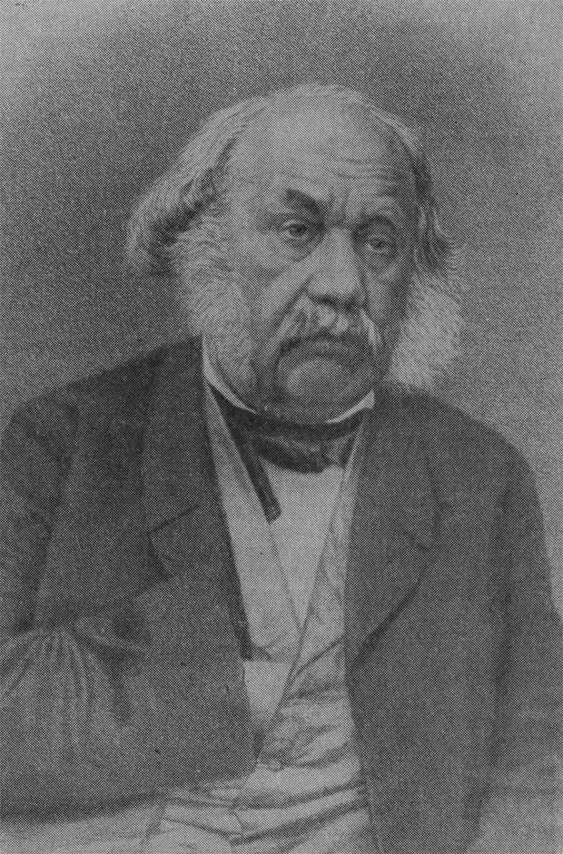 Nicolai Stepanovitch Turczaninow